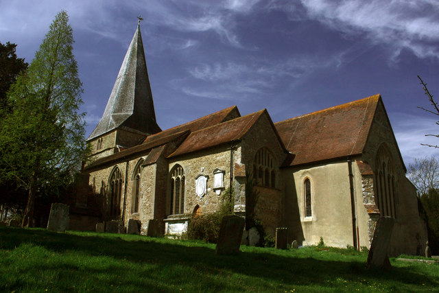 Saint Mary's Church, Sundridge, Kent Grade B listed